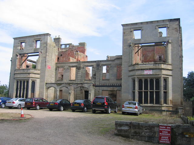 Guy's Cliffe House. The derelict main frontage of Guy's Cliffe House.